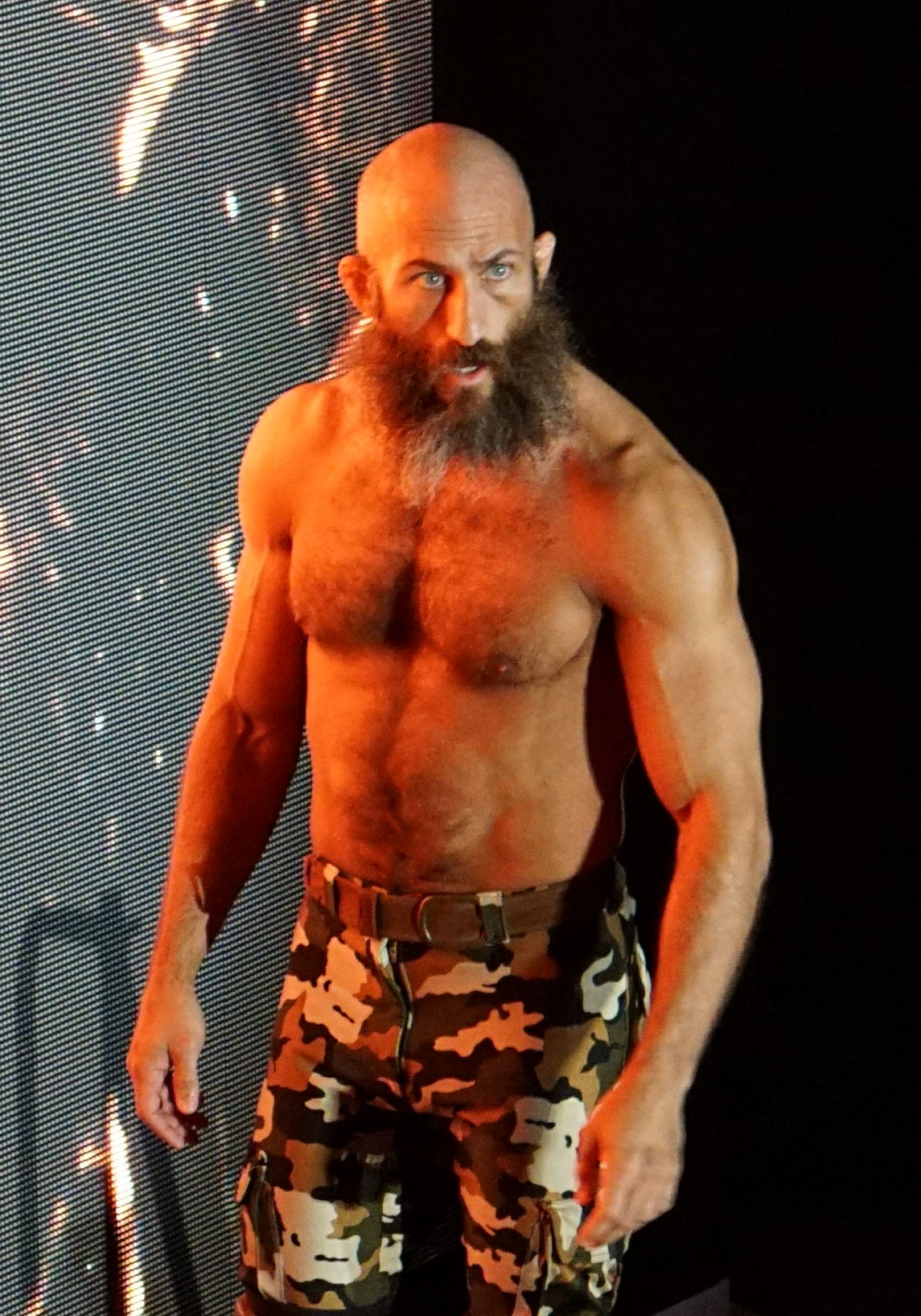 Tommaso Ciampa at NXT live show in Buffalo, NY.